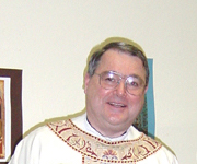 Richard Gagnon at St. John the Apostle Parish (Vancouver) in 2002, when he was serving as its pastor.